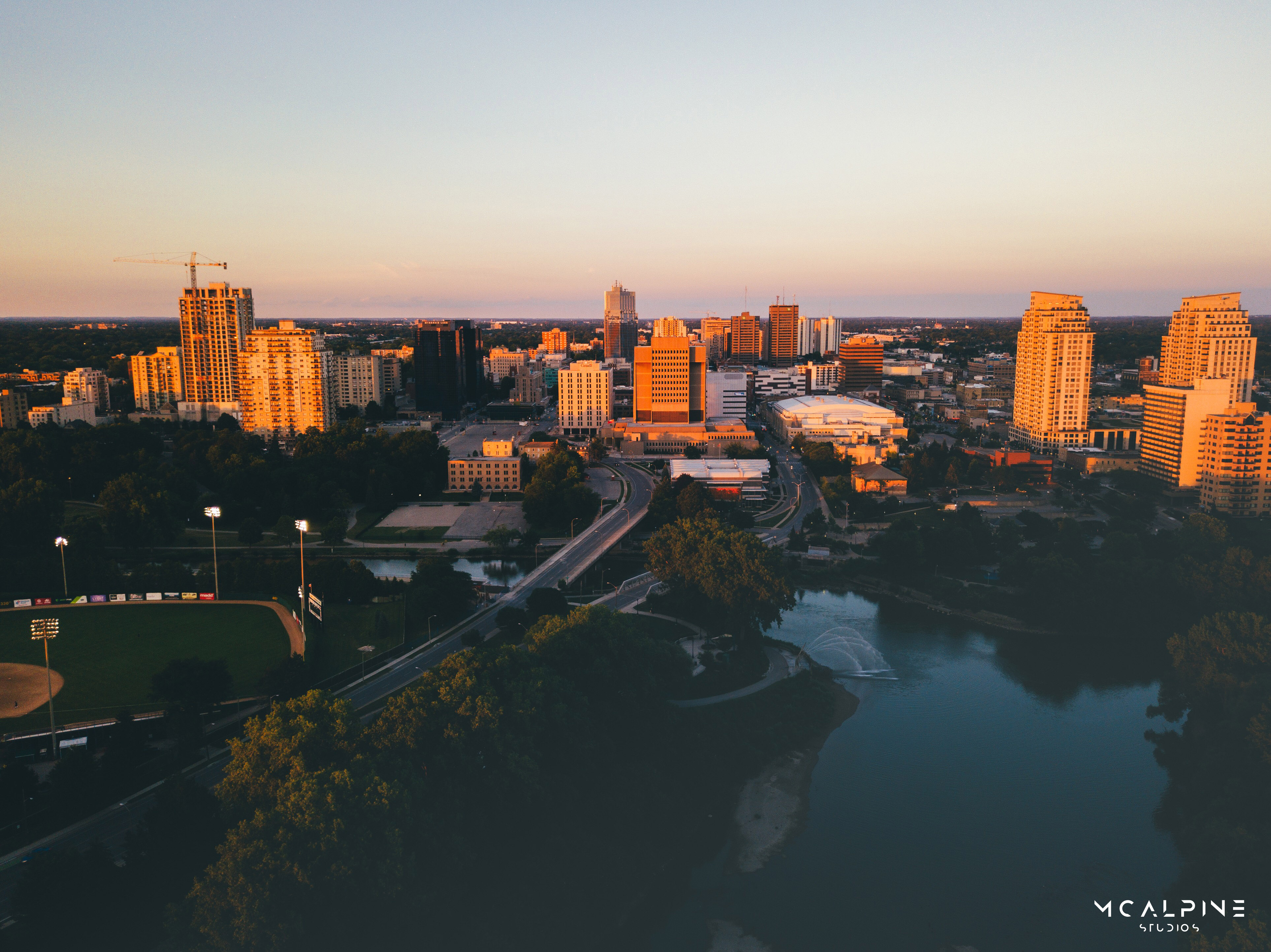 The London Ontario skyline as of July 25th, 2017.